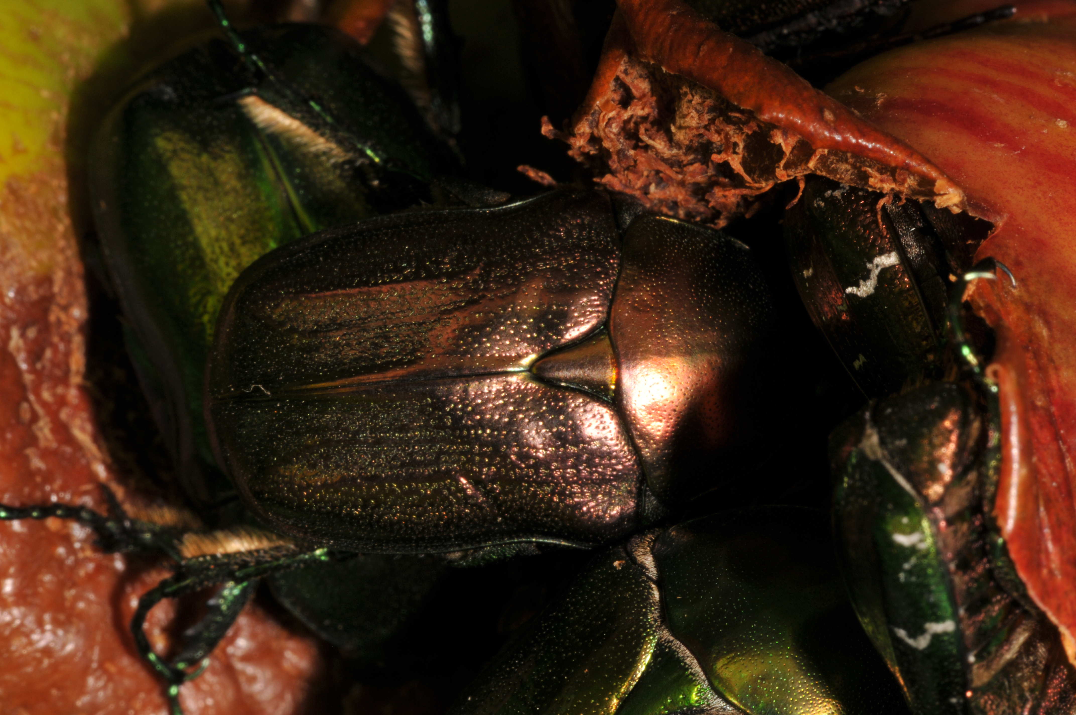 Protaetia angustata, Croatia, Istria, Brseč 15 km south Lovran, 45°10`23,80``N 14°13`37,25``E